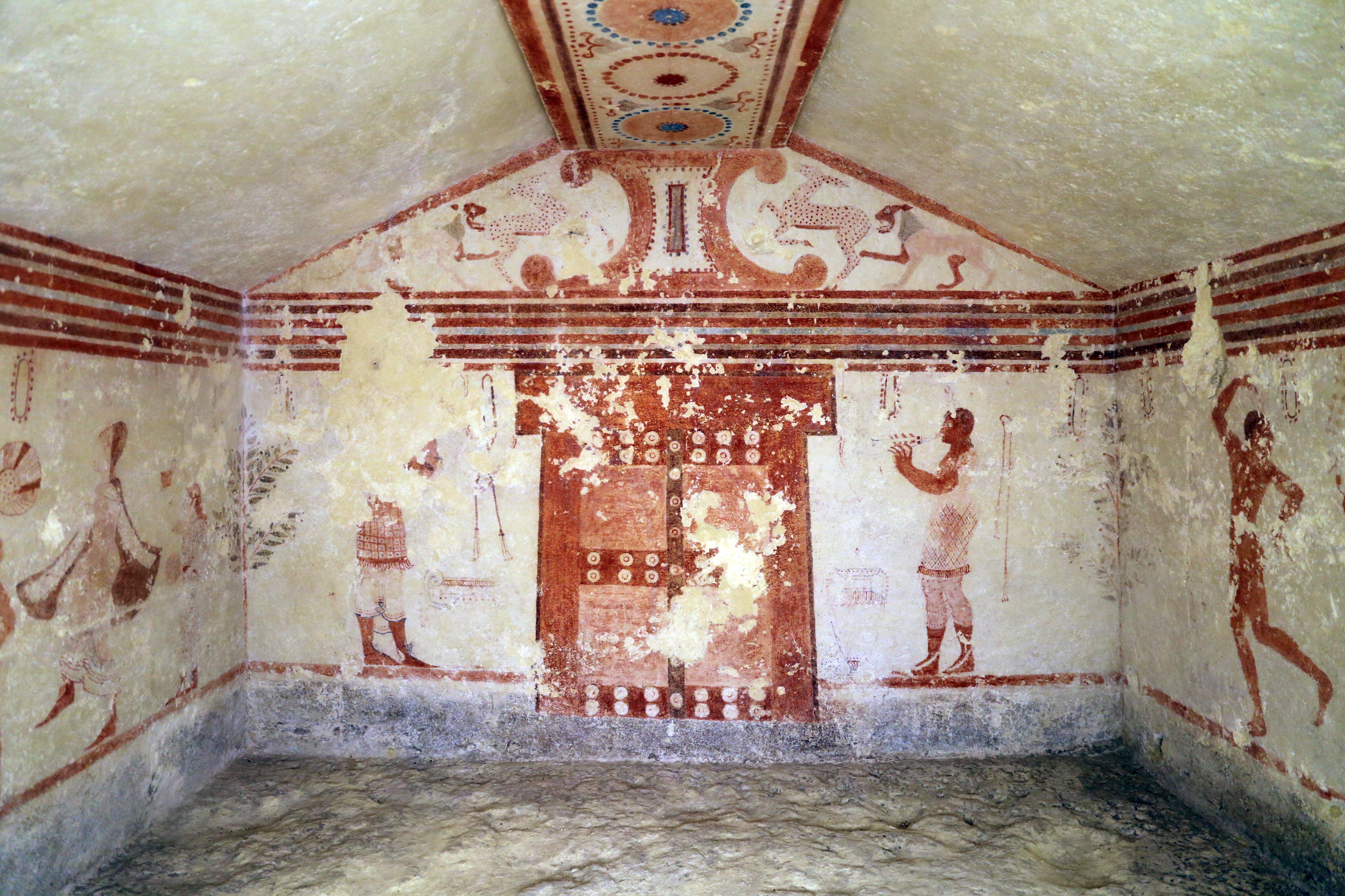 Necropoli dei Monterozzi (Tarquinia)